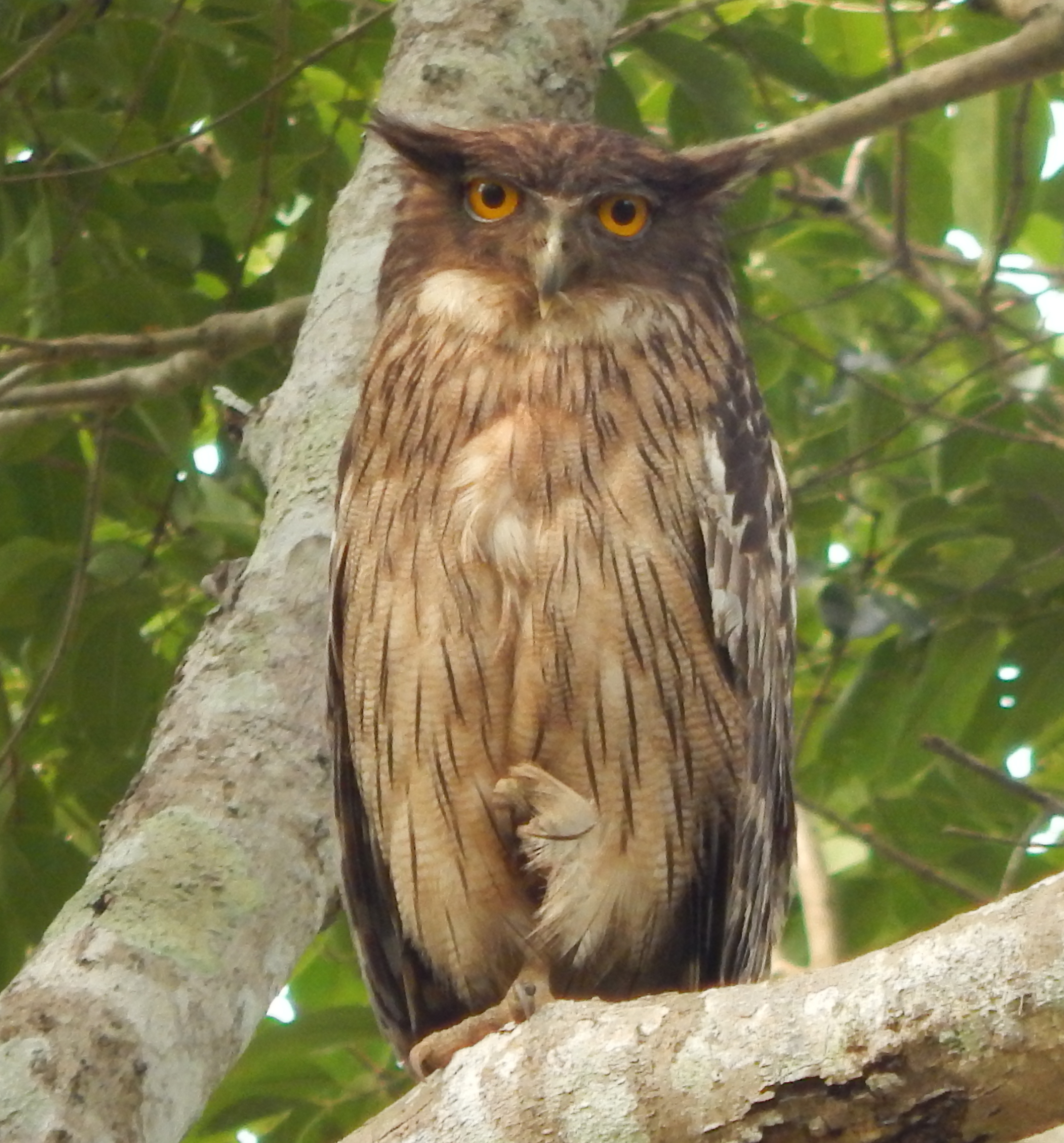 The photo was taken in 2014, in the forest of western ghat near Sagar, Shimoga District of Karnataka state.